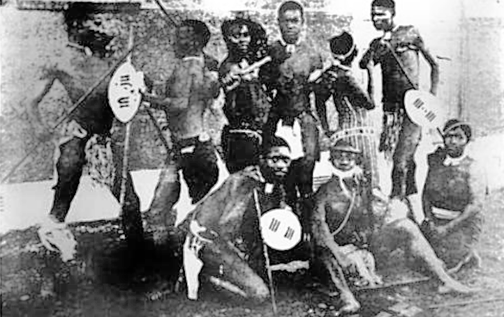 Esau Fika Mthethwea who was a teacher fomed the "Lucky Stars in 1929 as an ethnic Vaudebville troupe of typically eight young teachers who had been trained at Adams. Esau died in 1933 but others took over and the Lucky Stars toured throughout the country and they nearly had a tour of Europe